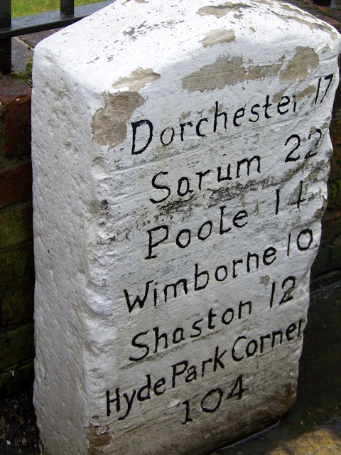 Milestone, Blandford Forum Milestone set beside the wall of the Crown Hotel on West Street.